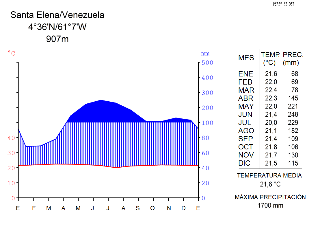 Diagram for temperature and precipitation in Santa Elena de Uairén, Gran Sabana Venezuela. Data provided by Geoklima 2.1.